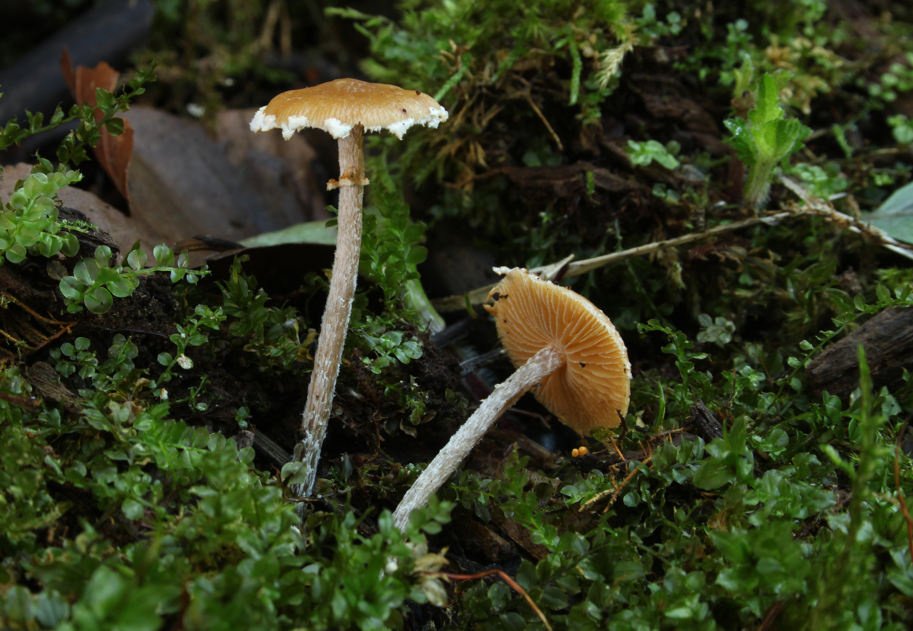 Conocybe vestita syn. Pholiotina vestita, Family: Bolbitiaceae, Location: Germany, Lauterach.